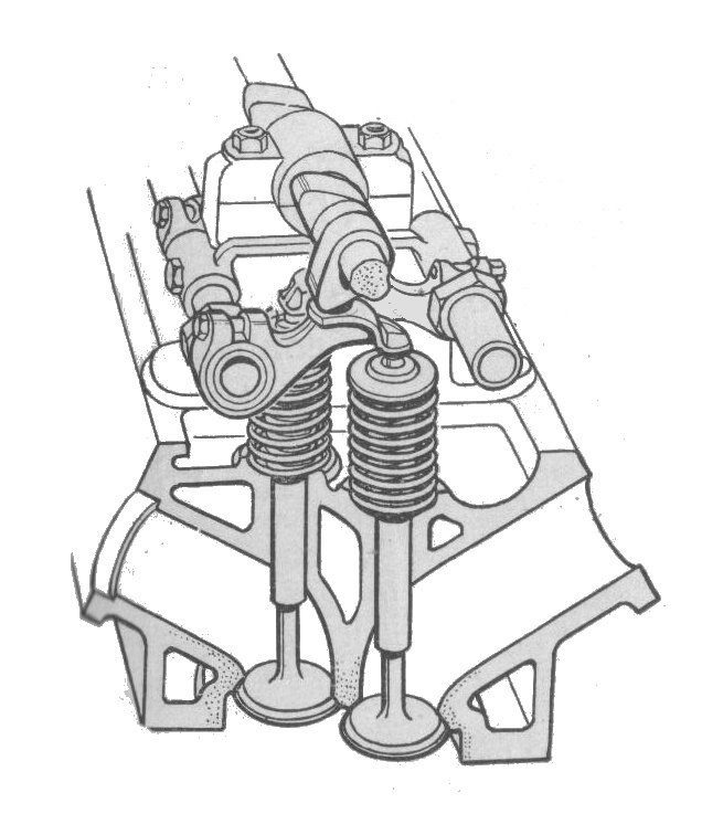 Overhead camshaft with rockers (Autocar Handbook, 13th ed, 1935).jpg